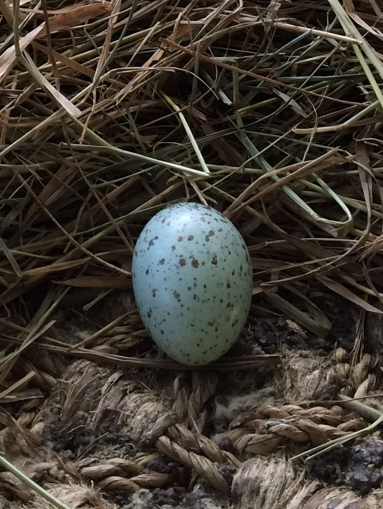 A photograph to show the colour and markings on the egg of the Eurasian Magpie (Pica Pica)